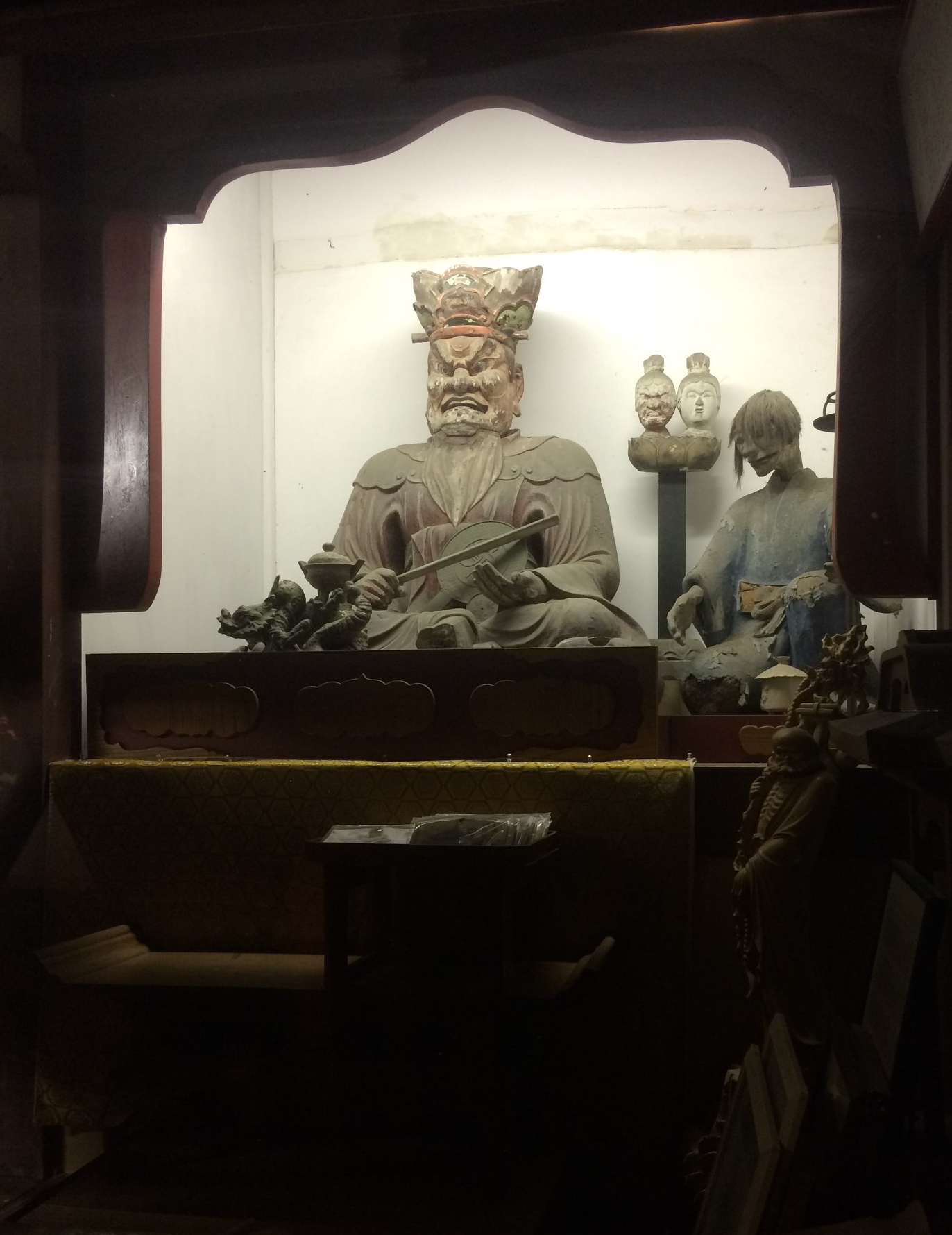 King Enma (Enmaō) and the Old Hag Datsue (Datsueba), Enryū-Temple in Nakatsu (Oita Prefecture, Japan) 閻魔大王と奪衣婆, 中津市圓龍寺